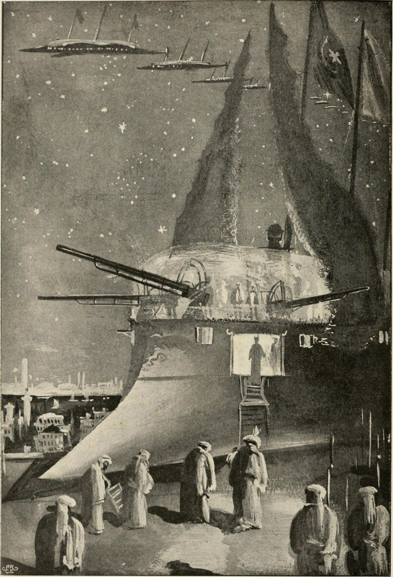 Title: Olga Romanoff Year: 1897 (1890s) Authors: Griffith, George Chetwynd Subjects: Utopias Publisher: London : Simpkin, Marshall, Hamilton, Kent and Co. Text Appearing Before Image: ' Text Appearing After Image: Evil in such a Shape might be something moke than Good.(Frontispiece.) See j^age 176. OLGA . .ROMANOFF GEORGE GRIFFITH. AUTHOR OF ■ THE ANGKI. OV THE UEVOLUTION, THE OUTLAWS OK THE AIR, VALUAR THE OtT-IJORN, BRITON OR tlOEU ? THE ROMANCE OF GOLDEN STAR, ETC., ETC. And so they waited—waitedwhile the ages-old snow and icemelted from the bare, black rocksbinder the fierce breath of the fire-storm : while the ocean of flameseethed and roared and eddiedabout them, licking up the seasand melted snoios, and fightingwith them as fire and water havefought since the world began : whilethe foundations of the SouthernPole quivered and rocked beneaththeir feet, and the walls of theirrefuge quaked and cracked withthe throes of the -writhing earth,and cosmos was dissolved intochaos once more.—p. 368. WITH SIXTEEN ILLUSTRATIONSBY FRED T. JANE. LONDON:SIMPKIN, MARSHALL, HAMILTON, KENT c\: CO., Ltd. 1897. Copyrighted Abkoad. , All Foreign Rights Reserved. VJ CQ -^ L- TO HIRAM STEVENS MAXIM THE FIolgaromanoff00grif